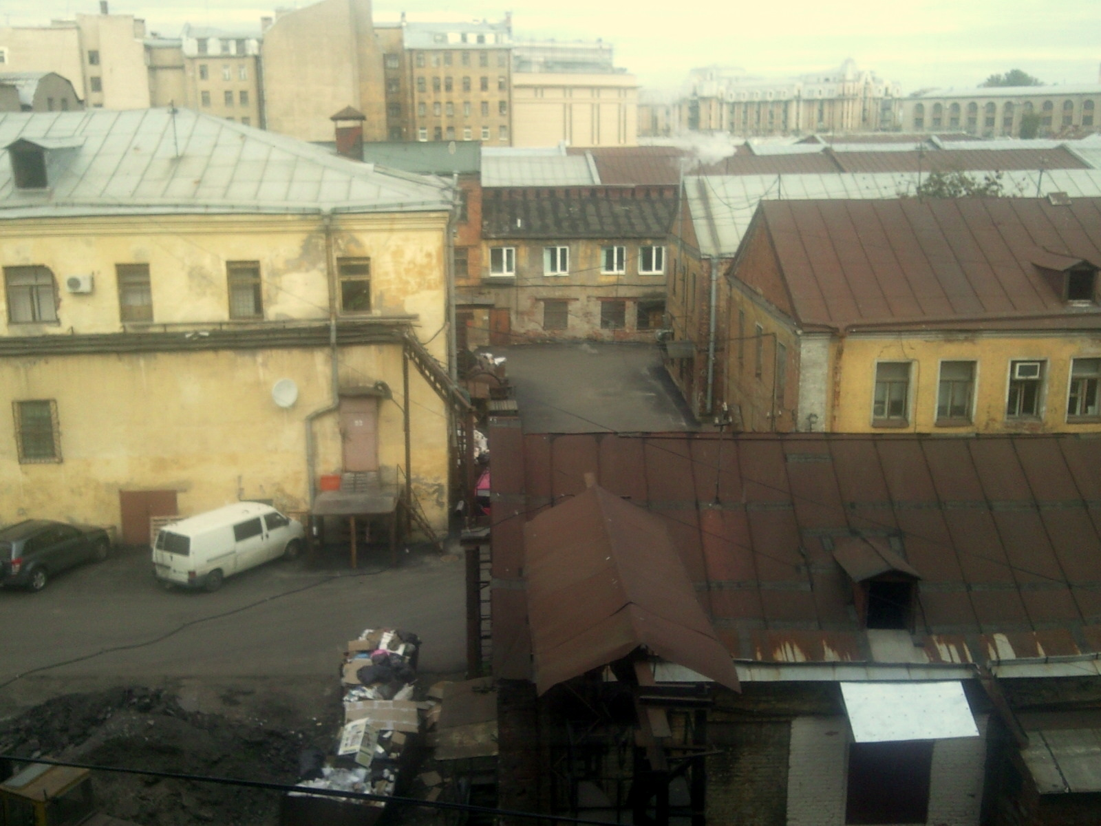 Ligovsky Avenue (the view onto the inner yards)